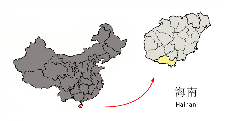 Location of Sanya Prefecture (yellow) on Hainan Island — within Hainan Province, Southeast China. Credits Map drawn in september 2007 using various sources, mainly : Hainan Counties map from